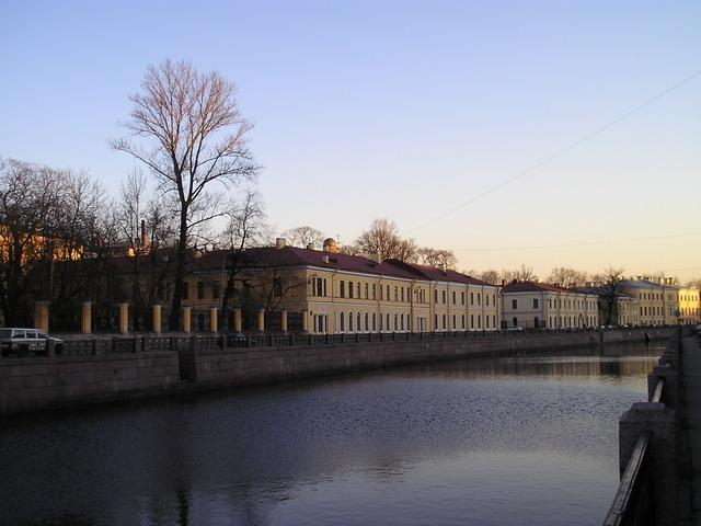 Saint Petersburg (Russia), Herzen University.